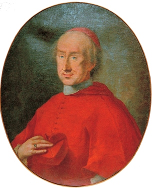 Daniele Dolfin, archbishop of Udine